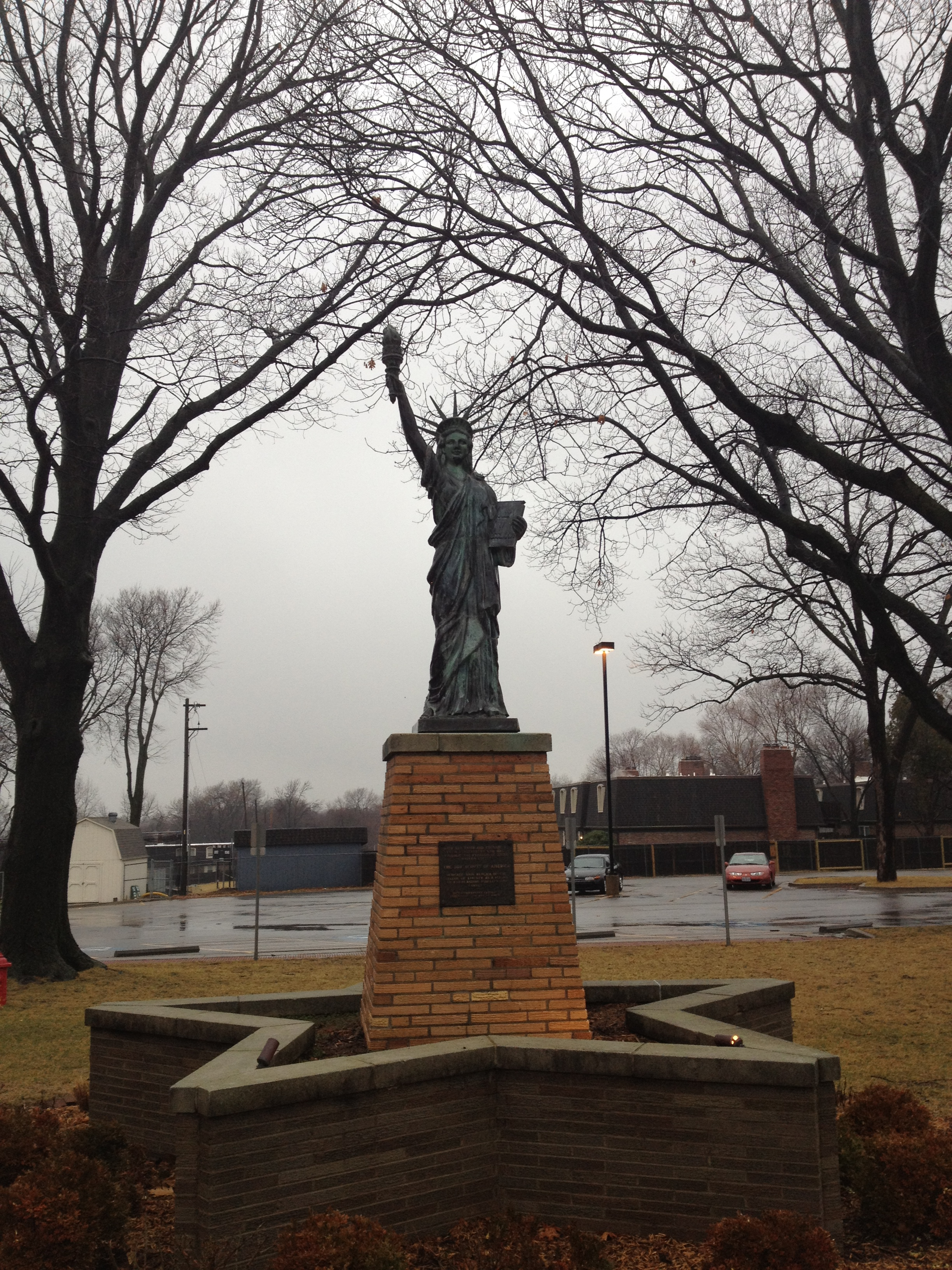 Photo of replica of Statue of Liberty on campus at Shawnee Mission North High School in Overland Park, Kansas